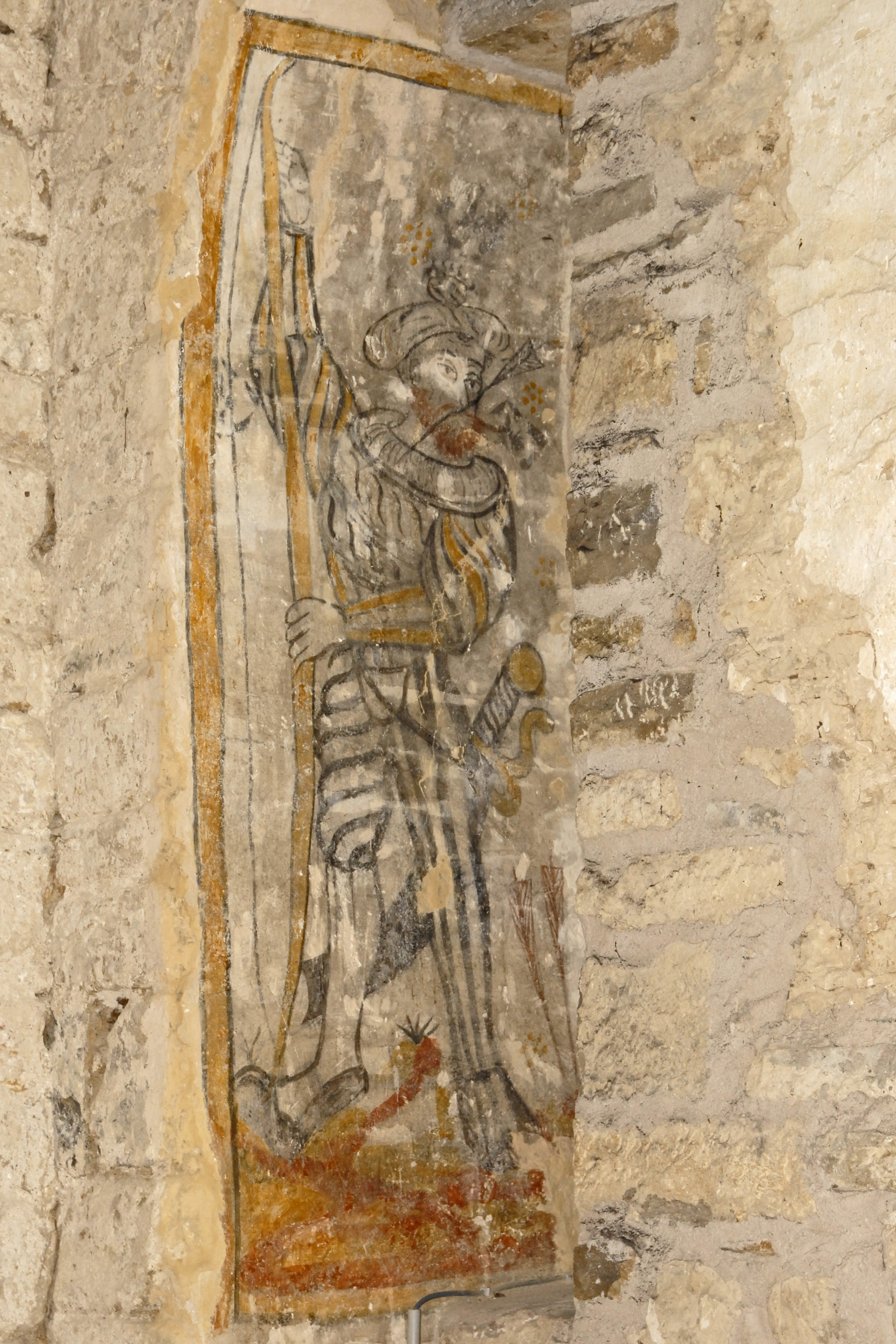 Saint-Hymetière, (Jura), France, fresco, a bowman, himself wounded by an arrow